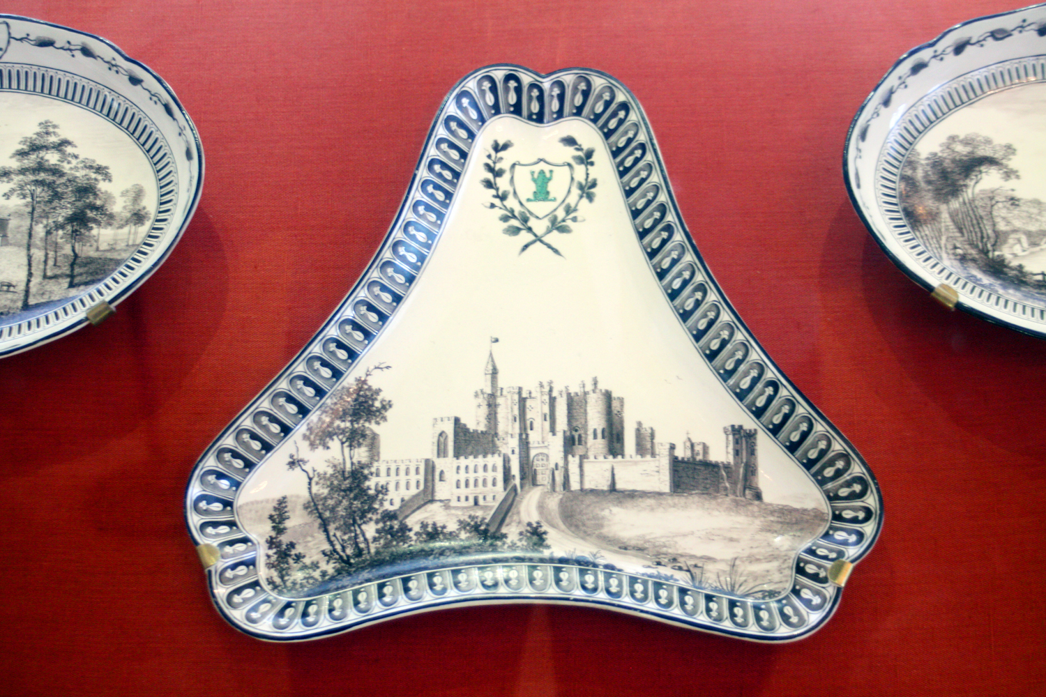 A platter from the Green Frog Service by Wedgwood.